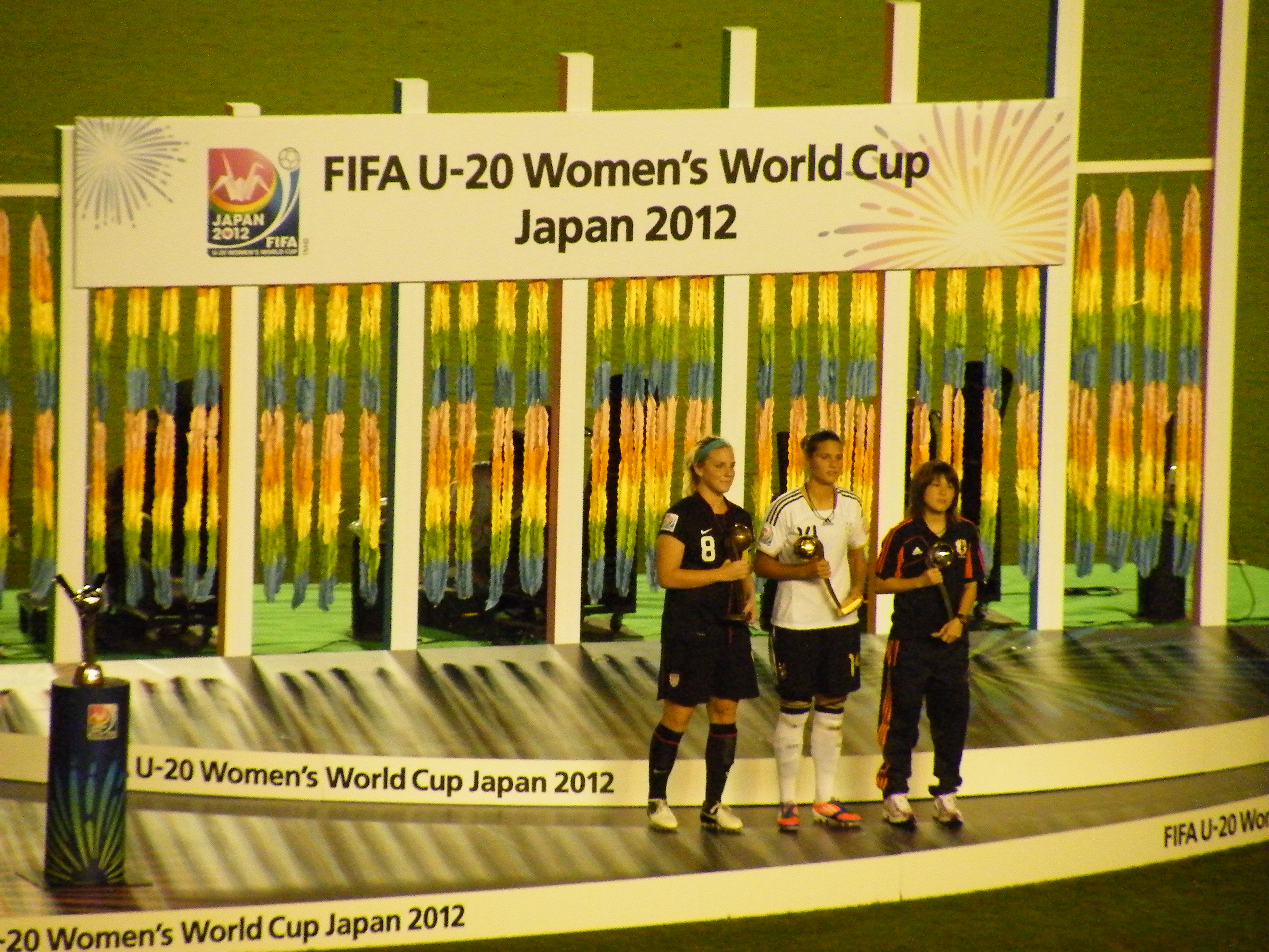 FIFA U-20 Women's World Cup 2012 Awards Ceremony. L-R: Julie Johnston (Bronze Ball), Dzsenifer Marozsán (Golden Ball) and Hanae Shibata (Silver Ball).